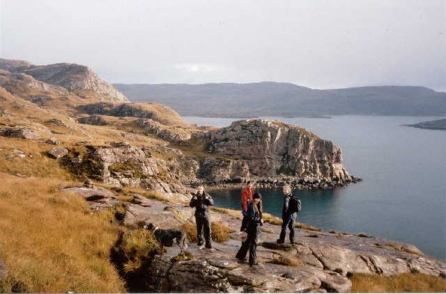 Coigach Coastline. Taken on the coast below the imposing slopes of Ben More Coigach, the peninsula of Rubha Meallain Bhuidh can be seen on the horizon, as can a small part of Isle Martin on the middle right edge of the photo